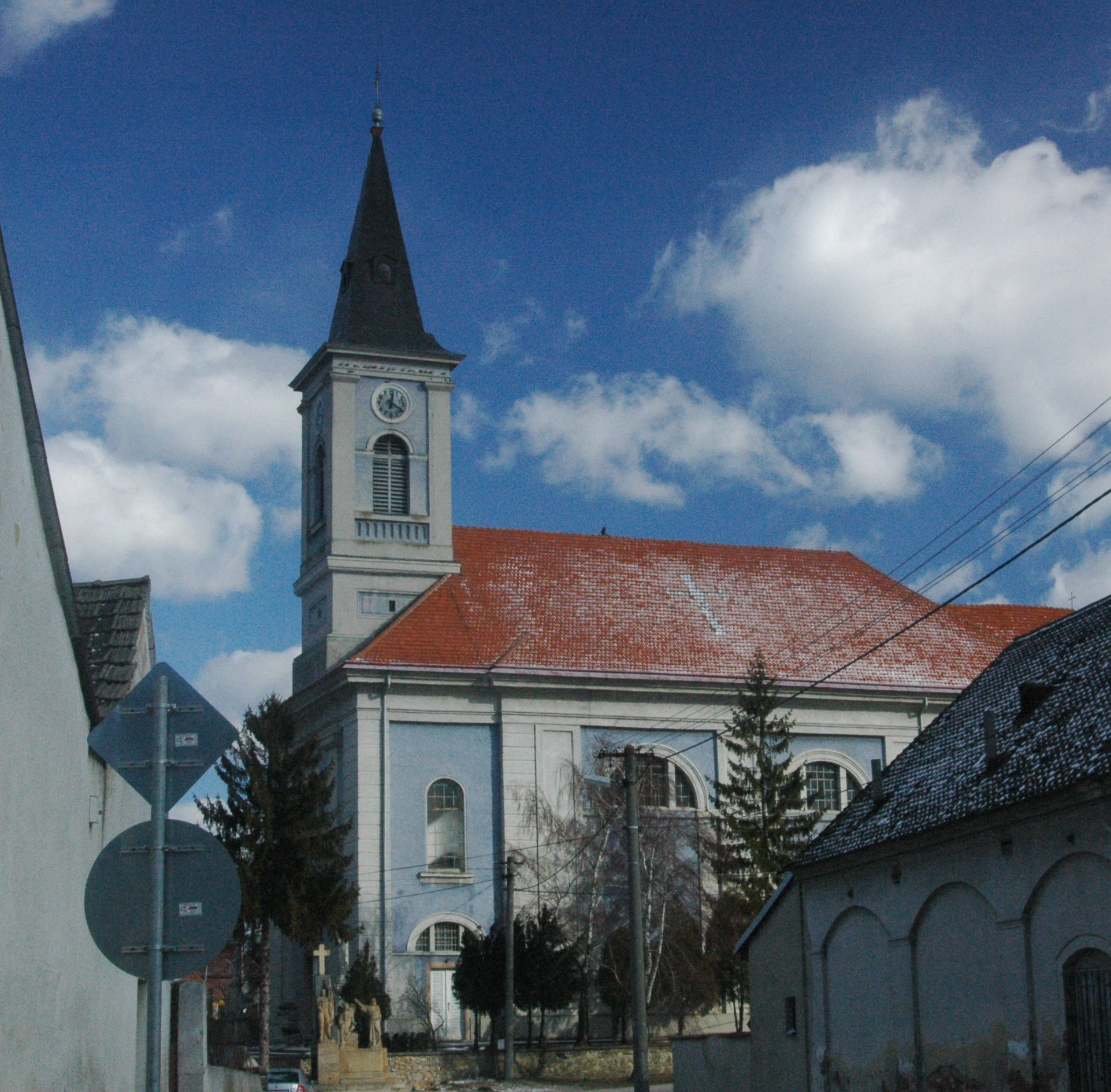 Gbely, Slovakia, Church of Archangel Michael